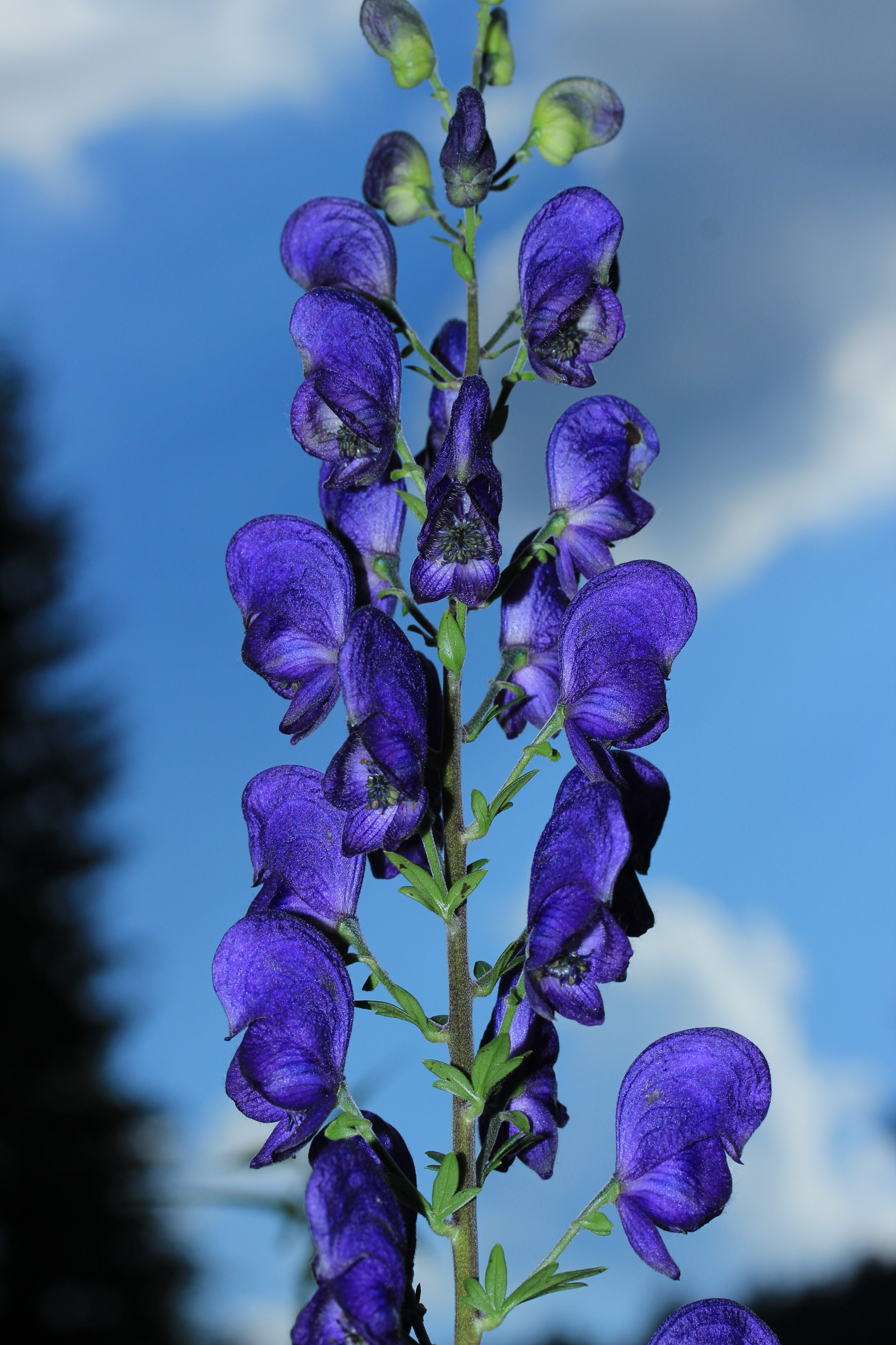 Aconitum firmum moravicum